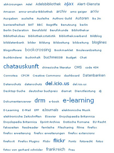 Tag cloud of the German weblog (excerpt), December 2005